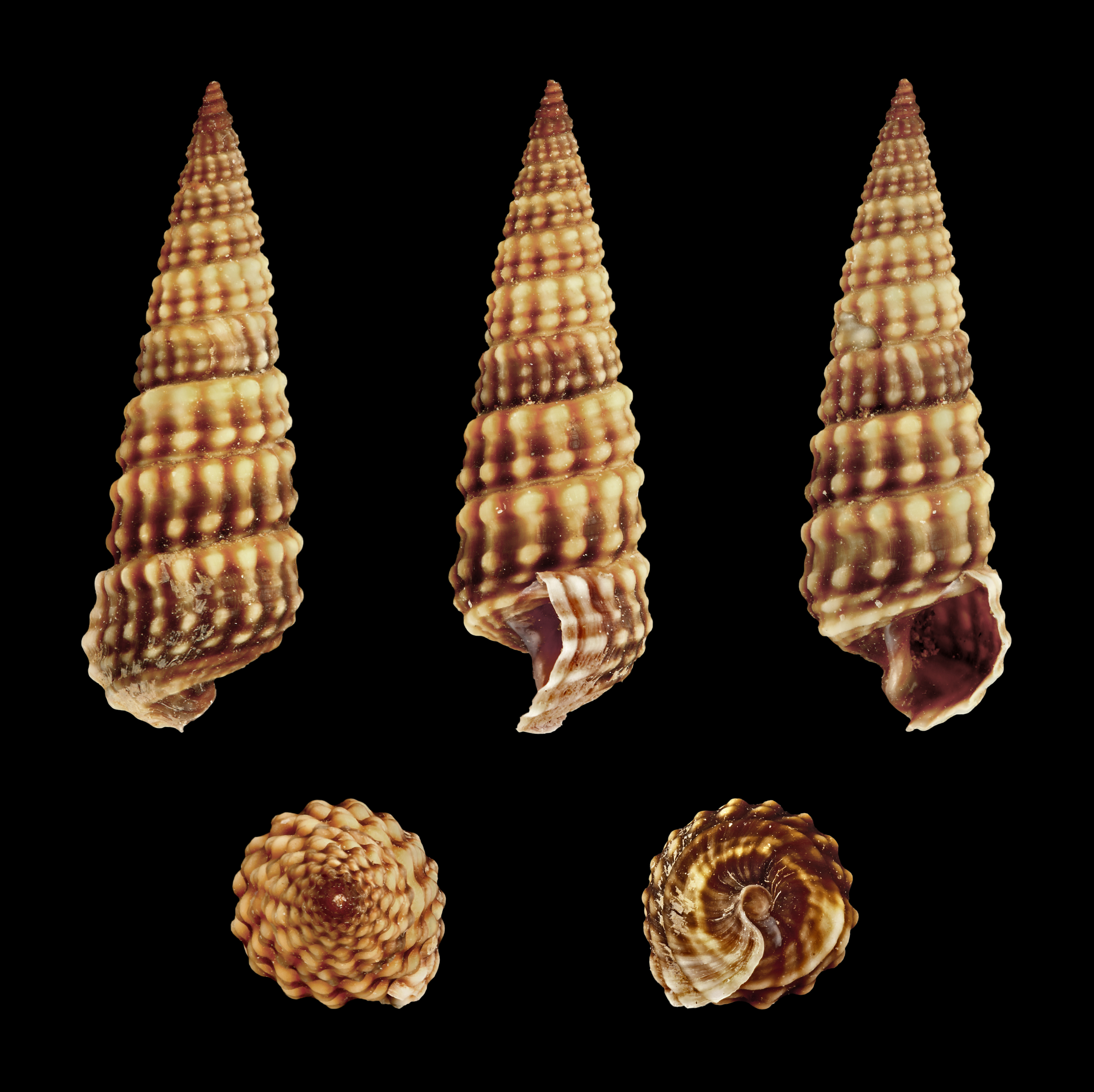 Length 1.6 cm; Originating from Ayvalik, Turkey; Shell of own collection, therefore not geocoded. Dorsal, lateral (right side), ventral, back, and front view.